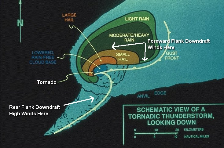 Horizontal structure of a supercell structure